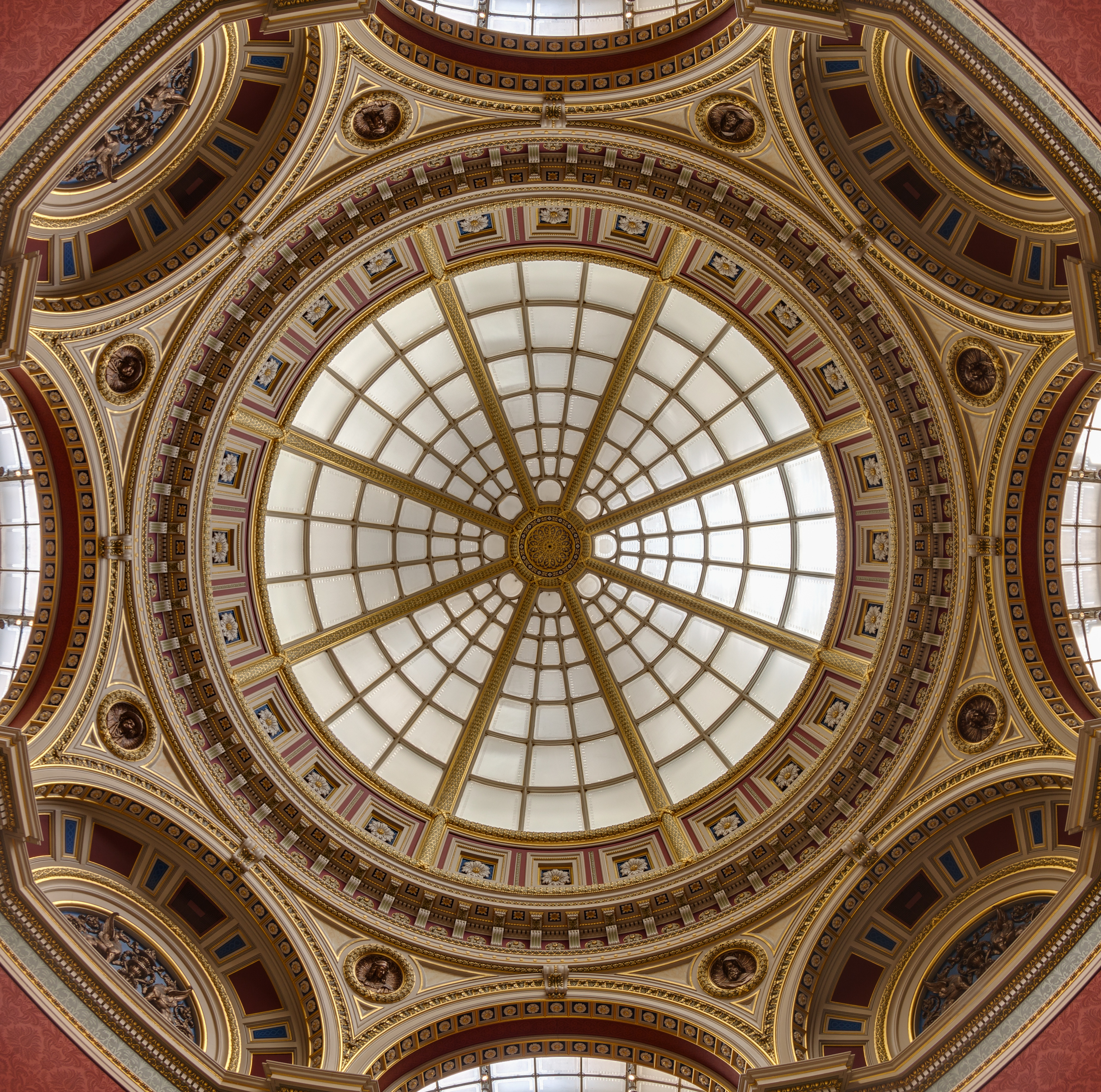 Domed centrepiece of the Barry Rooms, National Gallery, London (England). The National Gallery was founded in 1824 and has a collection of over 2,300 paintings from the mid-13th century to 1900. The present building in London's Trafalgar Square is the third to house the National Gallery, and was designed by William Wilkins from 1832–38. The Barry Rooms were constructed later on, between 1872 and 1876 and were nouned after their designer, the English architect Edward Middleton Barry (1830–1880). The dome is located over the room 36 and is of polychrome Neo-Renaissance style.